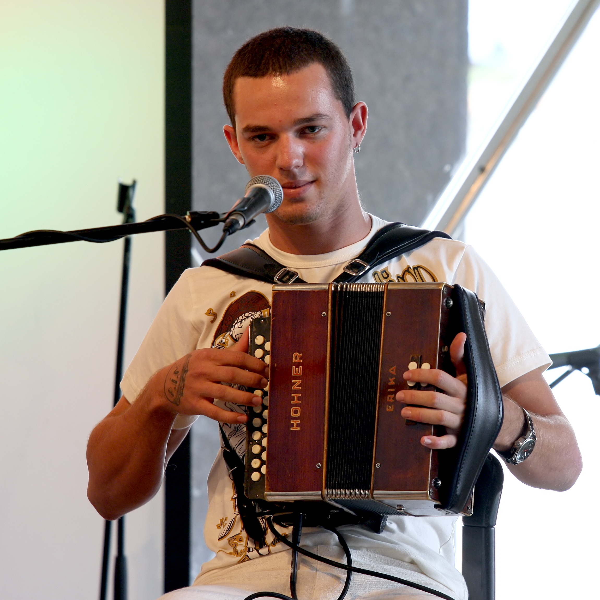 Valdir Santos and three members of his band performs in Cologne, Domforum